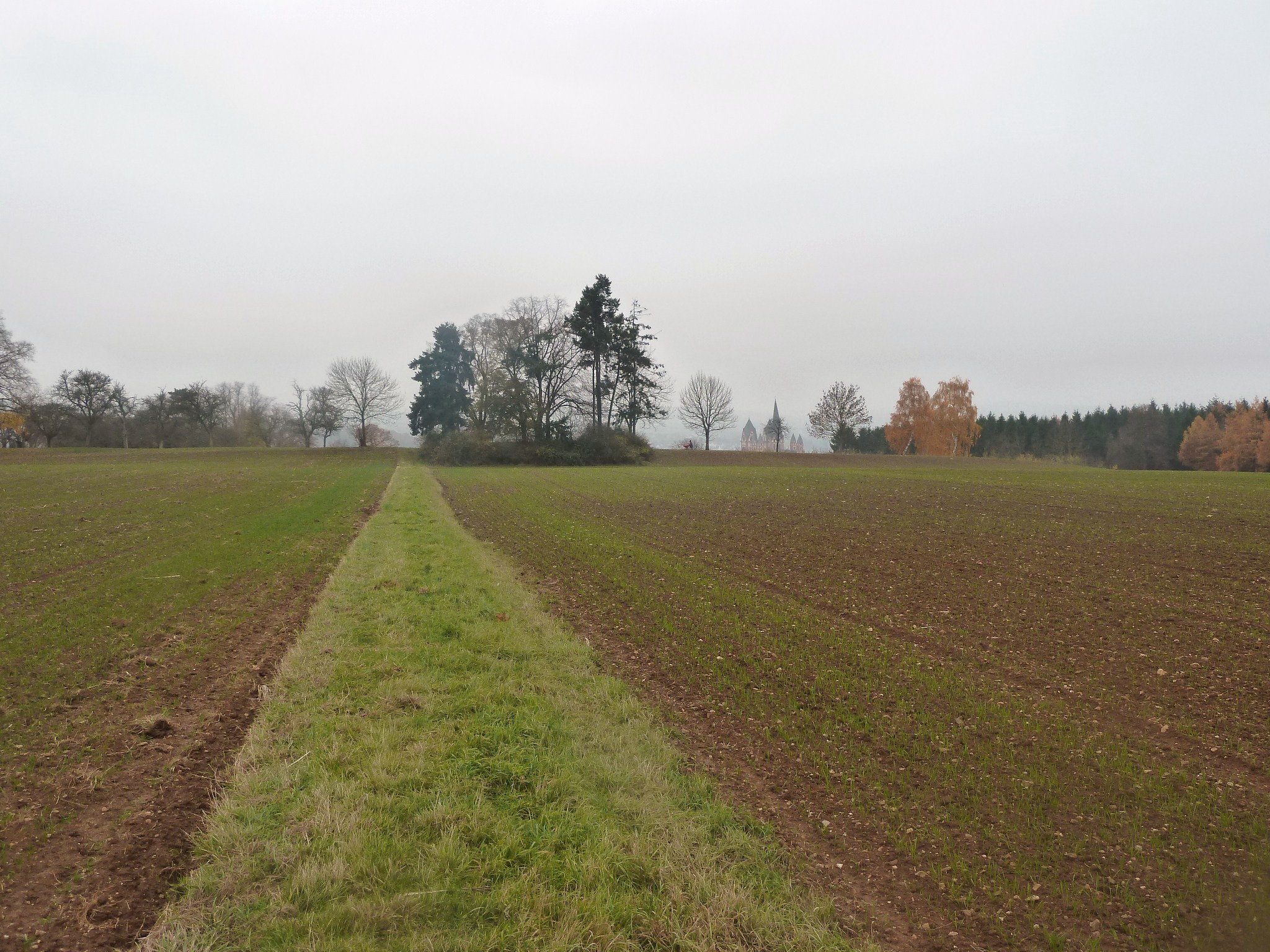 Austrian Redoubt on the Greifenberg near Limburg a.d. Lahn.